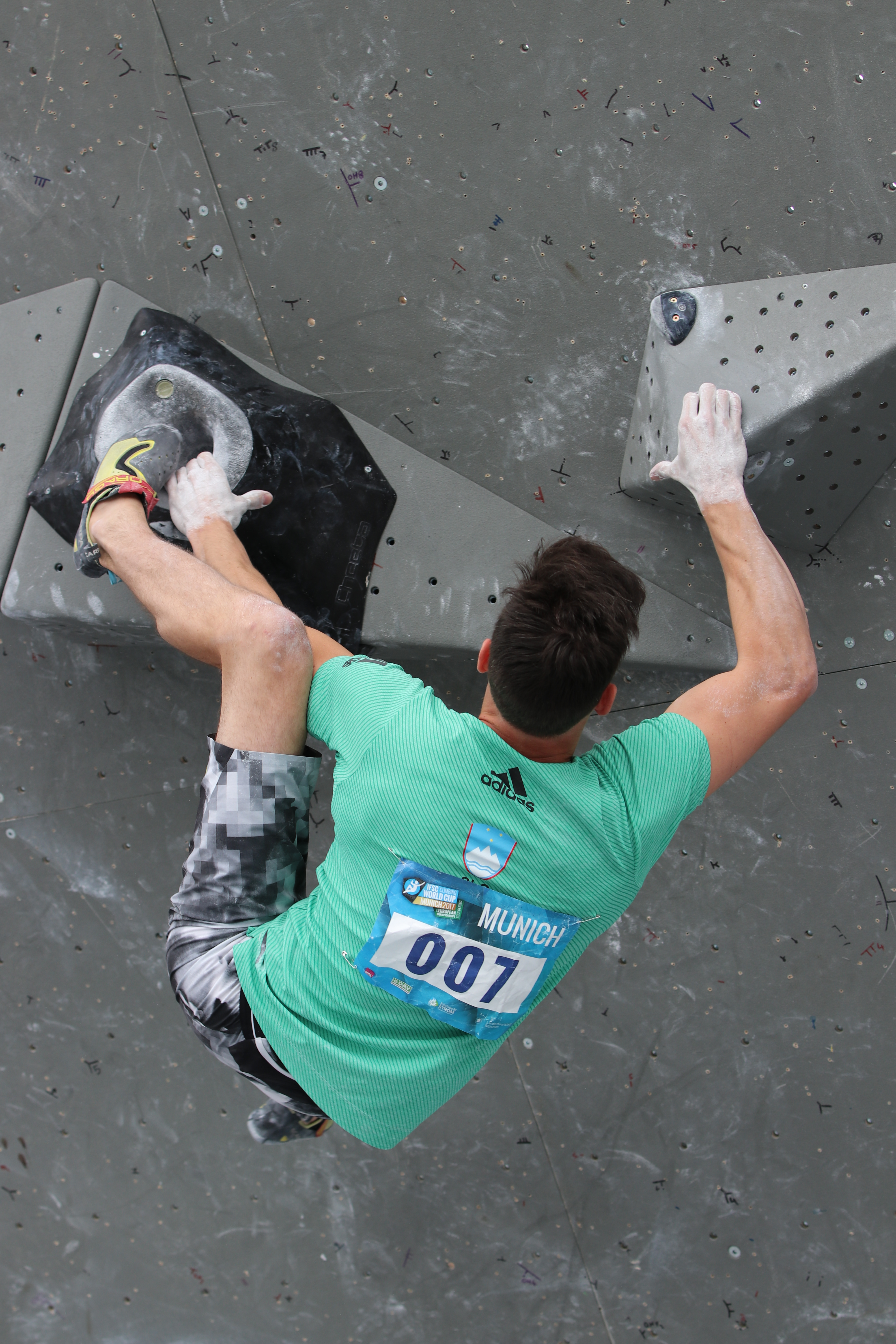 Jernej Kruder SLO at the Boulder Worldcup 2017 in Munich, Germany.